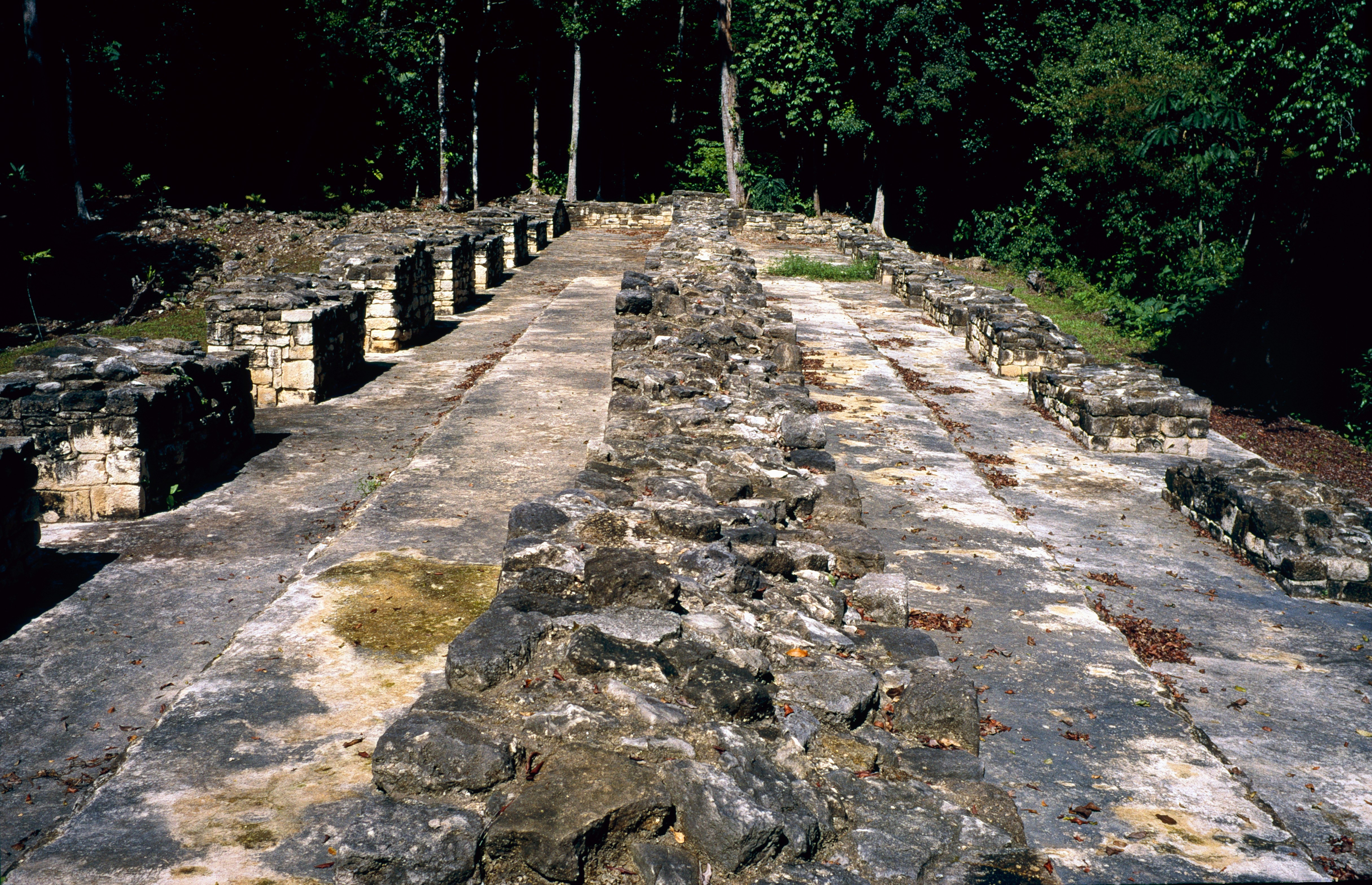 Aguateca, Peten, Guatemala: building M7-26